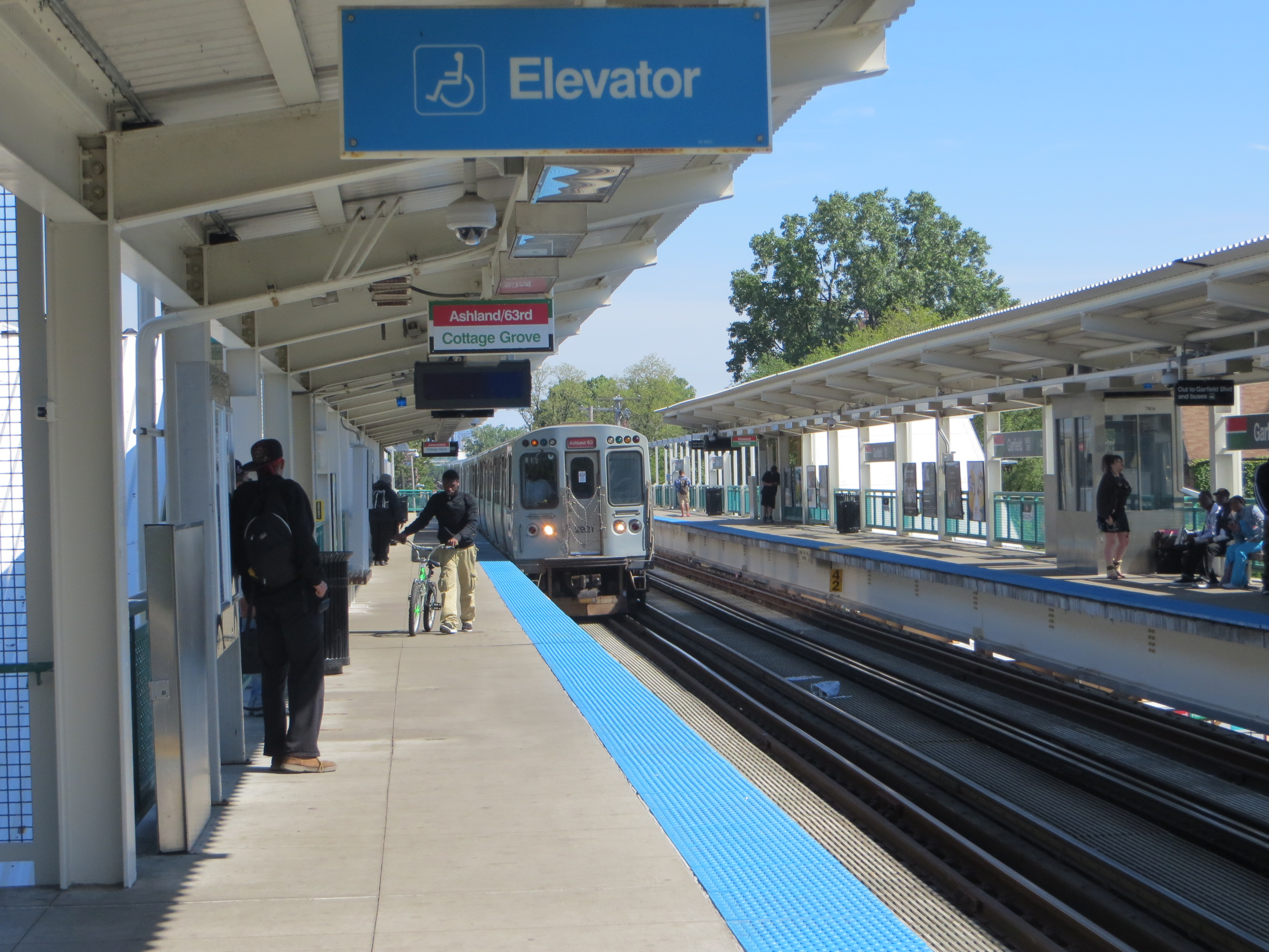 20130608 16 CTA South Side L @ Garfield